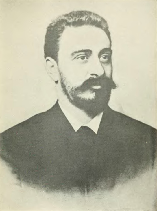 Romanian politician and Prime ministar Ion Bratianu